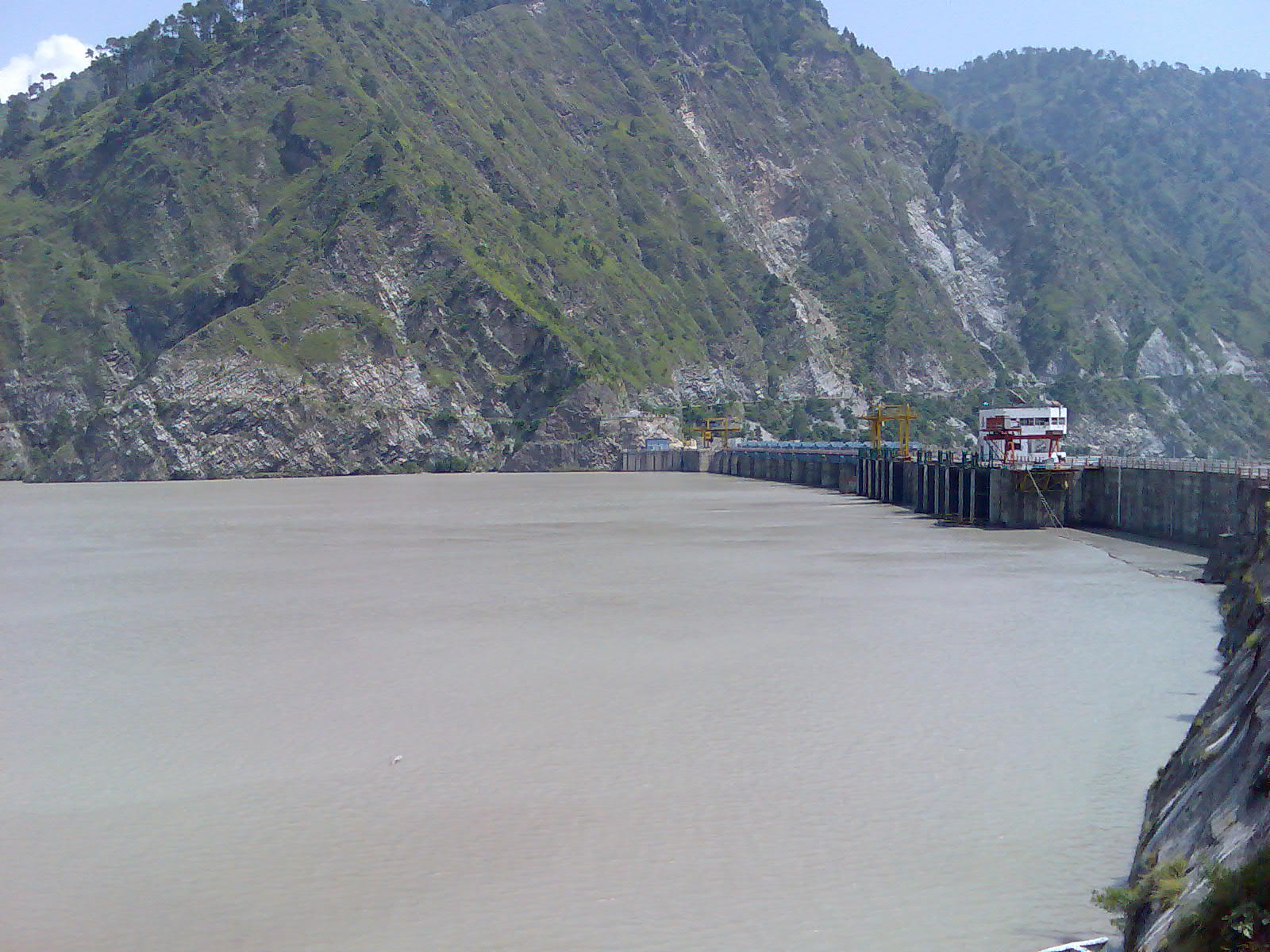 Rockfill Dam, Salal Hydroelectric Power Station, Distt. Reasi, Jammu.